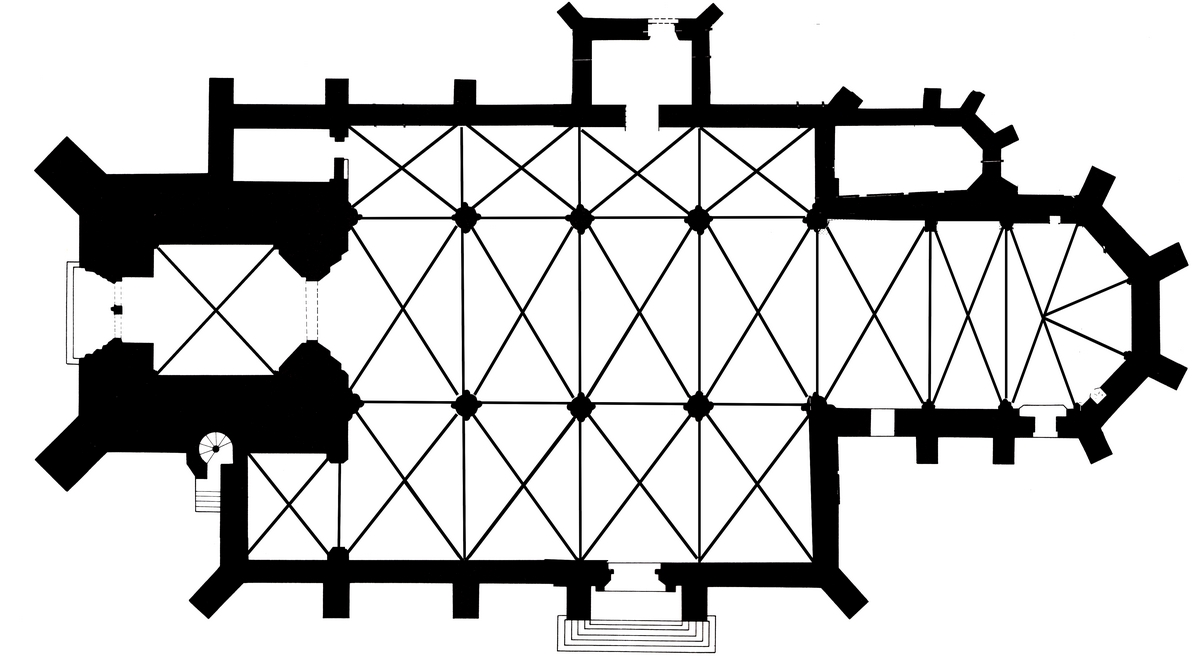 Ground plan of the Marienkirche (St. Mary's Church), Homberg (Efze), Schwalm-Eder-Kreis (district), Hessen, Germany